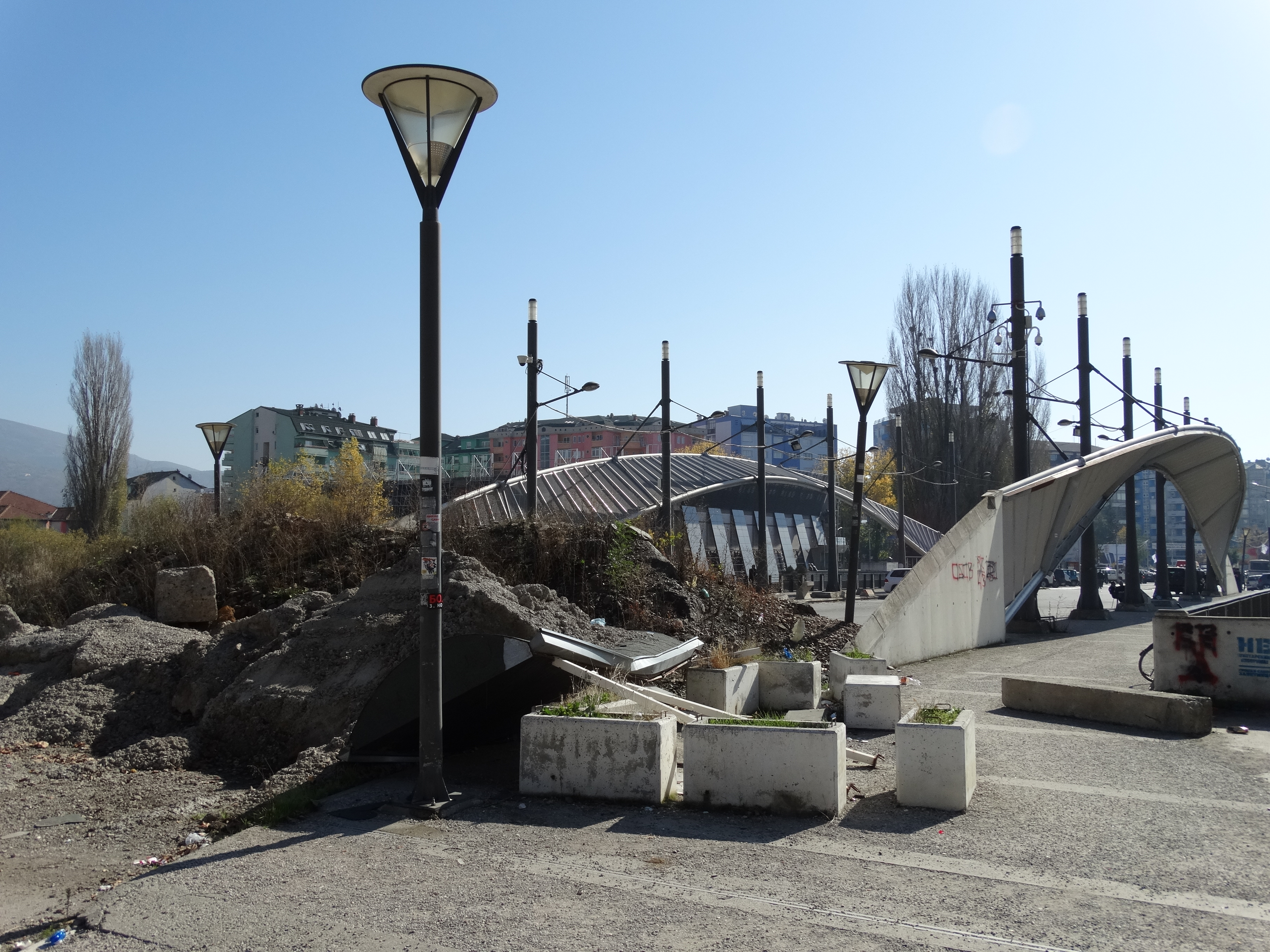 Ibar River Bridge Barricaded to Vehicle Traffic - Mitrovica (Serb Side) - Kosovo